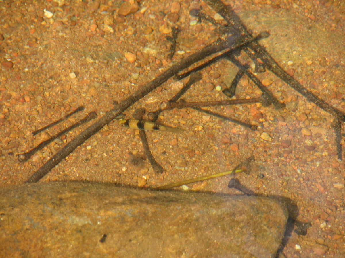 Tropical fresh water fish named Melon barb (Puntius fasciatus). Its name in Malayalam is Vazhakka varayan